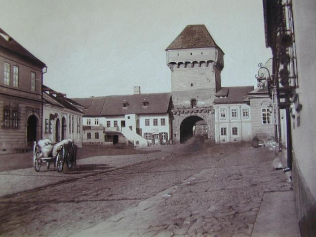 The Cluj Bridge Gate in 1860